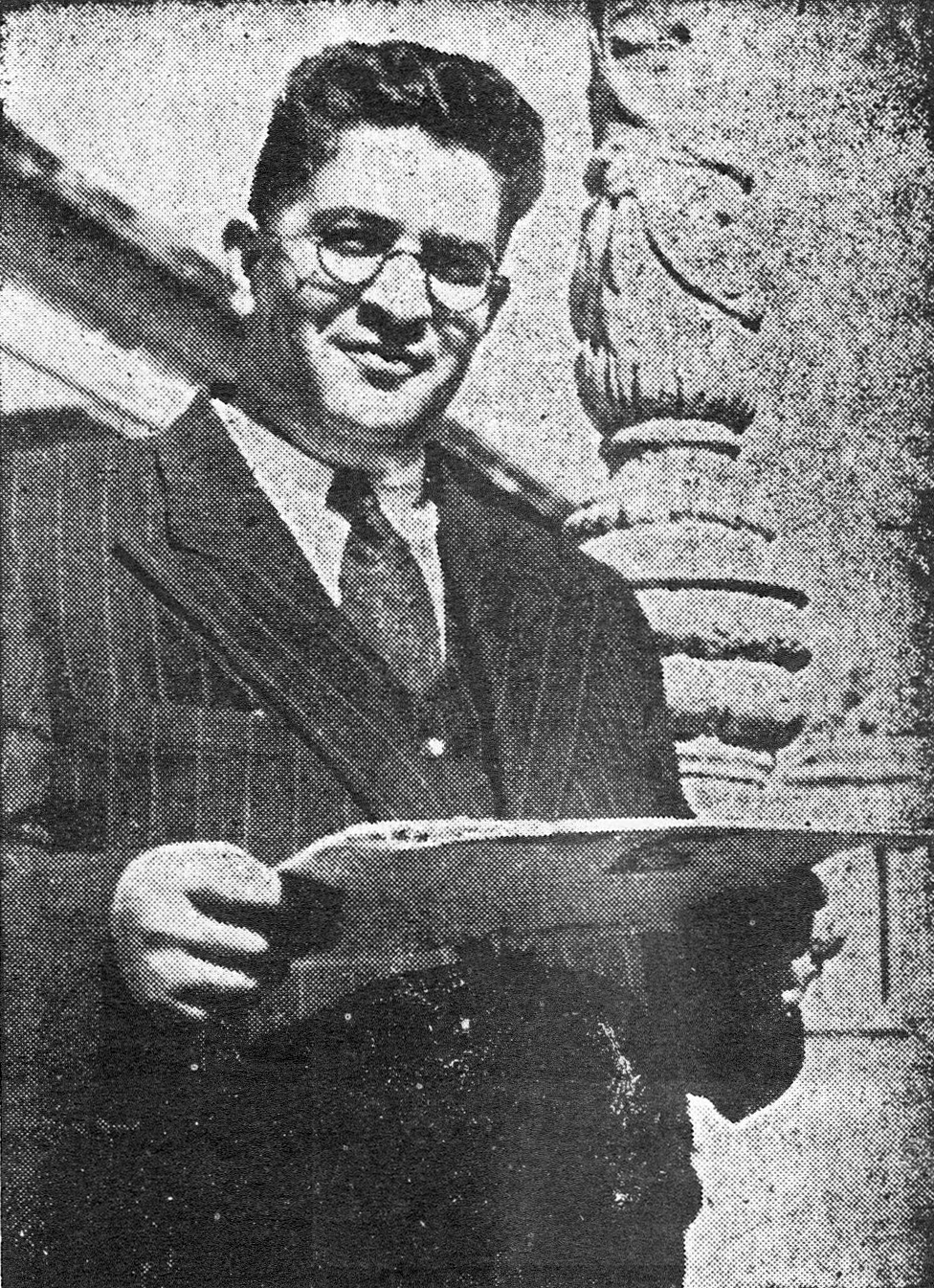 Mozaffar Baghai